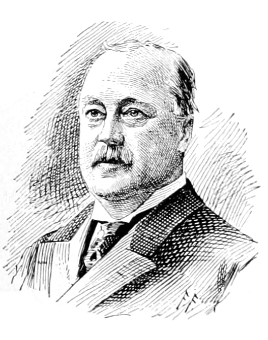 Lyman Cornelius Smith, founder and namesake of Smith Premier Typewriter Company